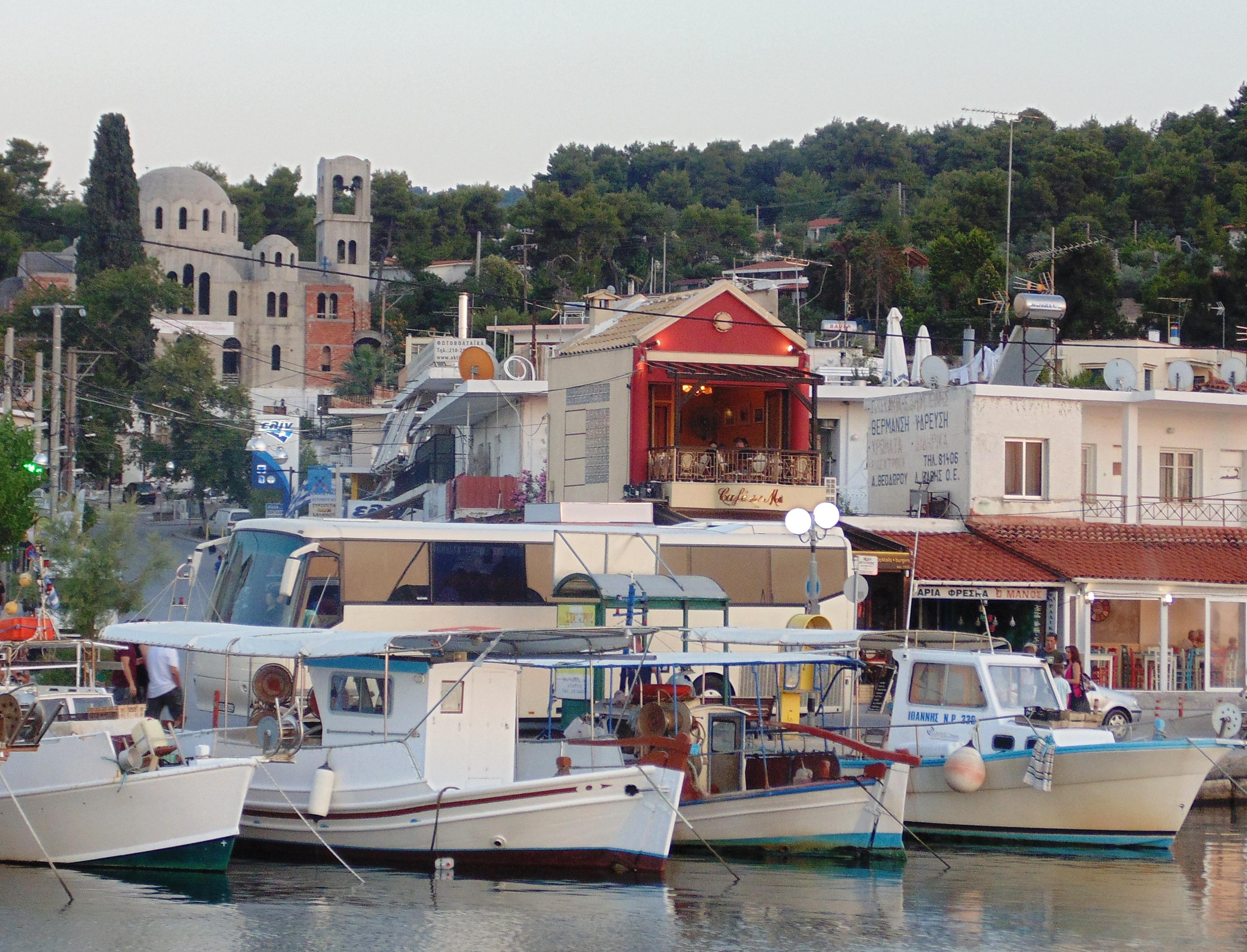 Agioi Apostoloi (Attica)